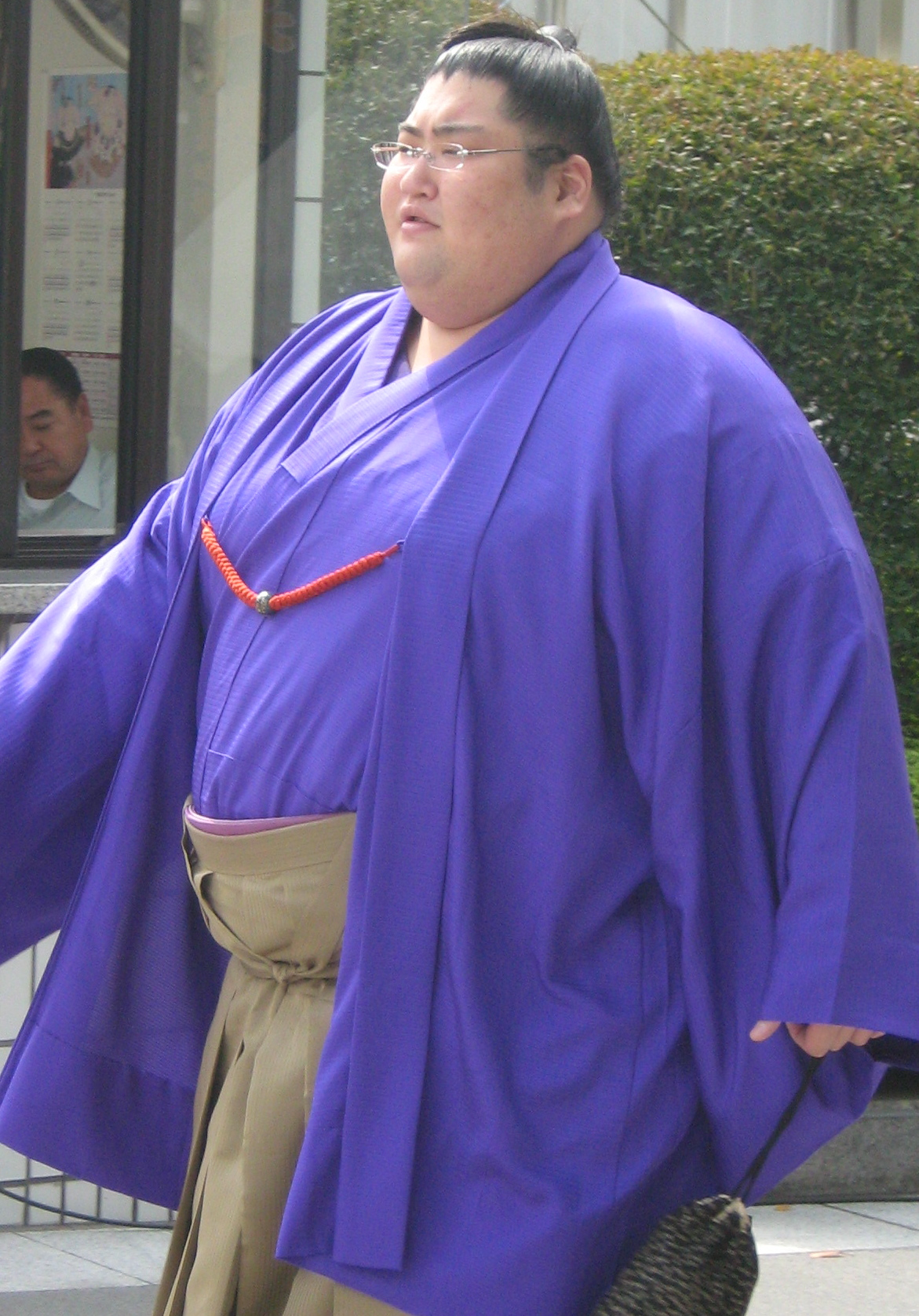 Taken outside 2008 Sep tournament